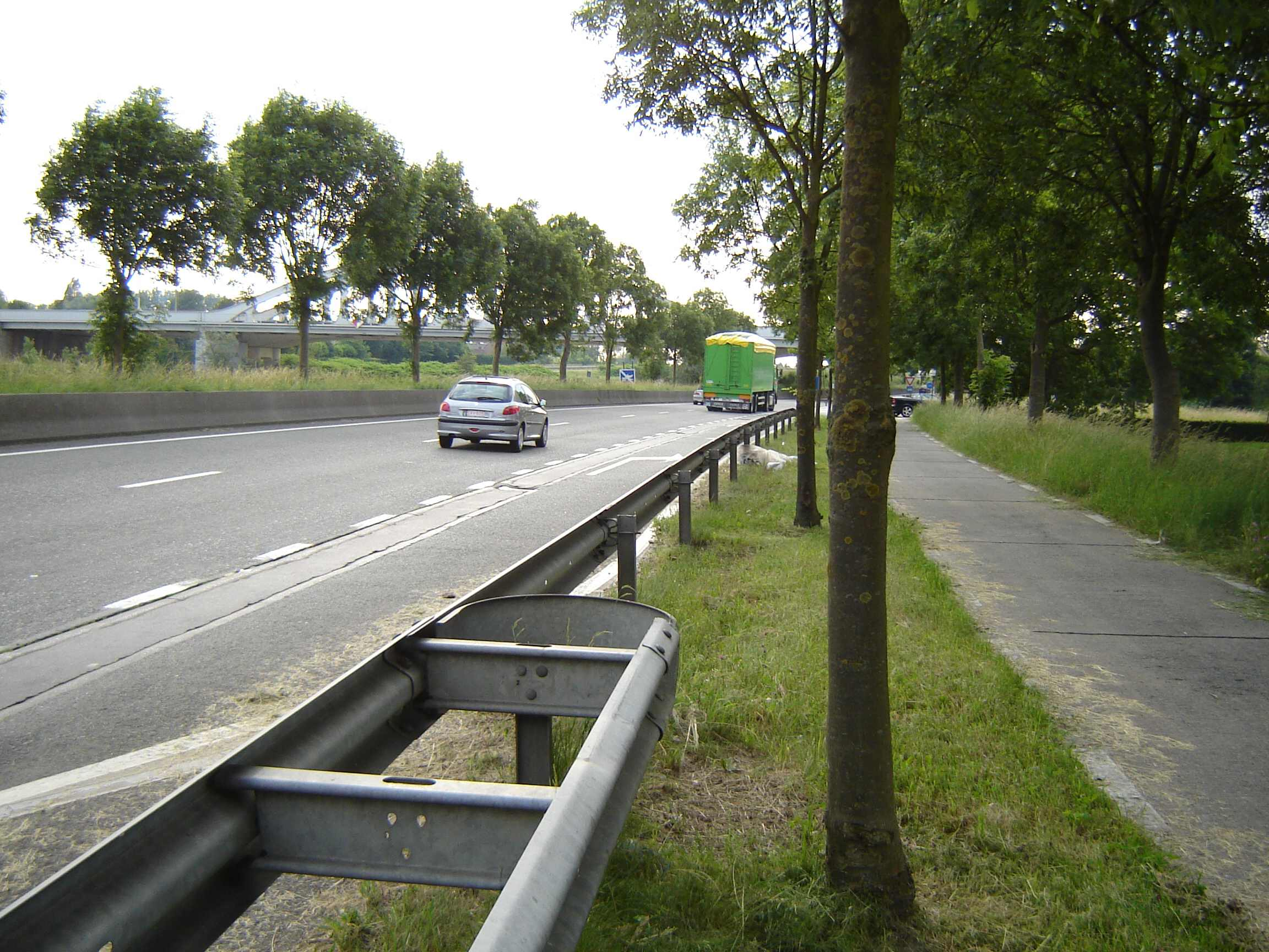 Exit at R4, Gent, Belgium. This picture demonstrates one of the old short exit lanes that are still in use as of 2006.